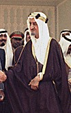 King Faisal of Saudi Arabia during a visit of President Nixon at Riasa Palace, July 15, 1974. ARC Identifier: 194585